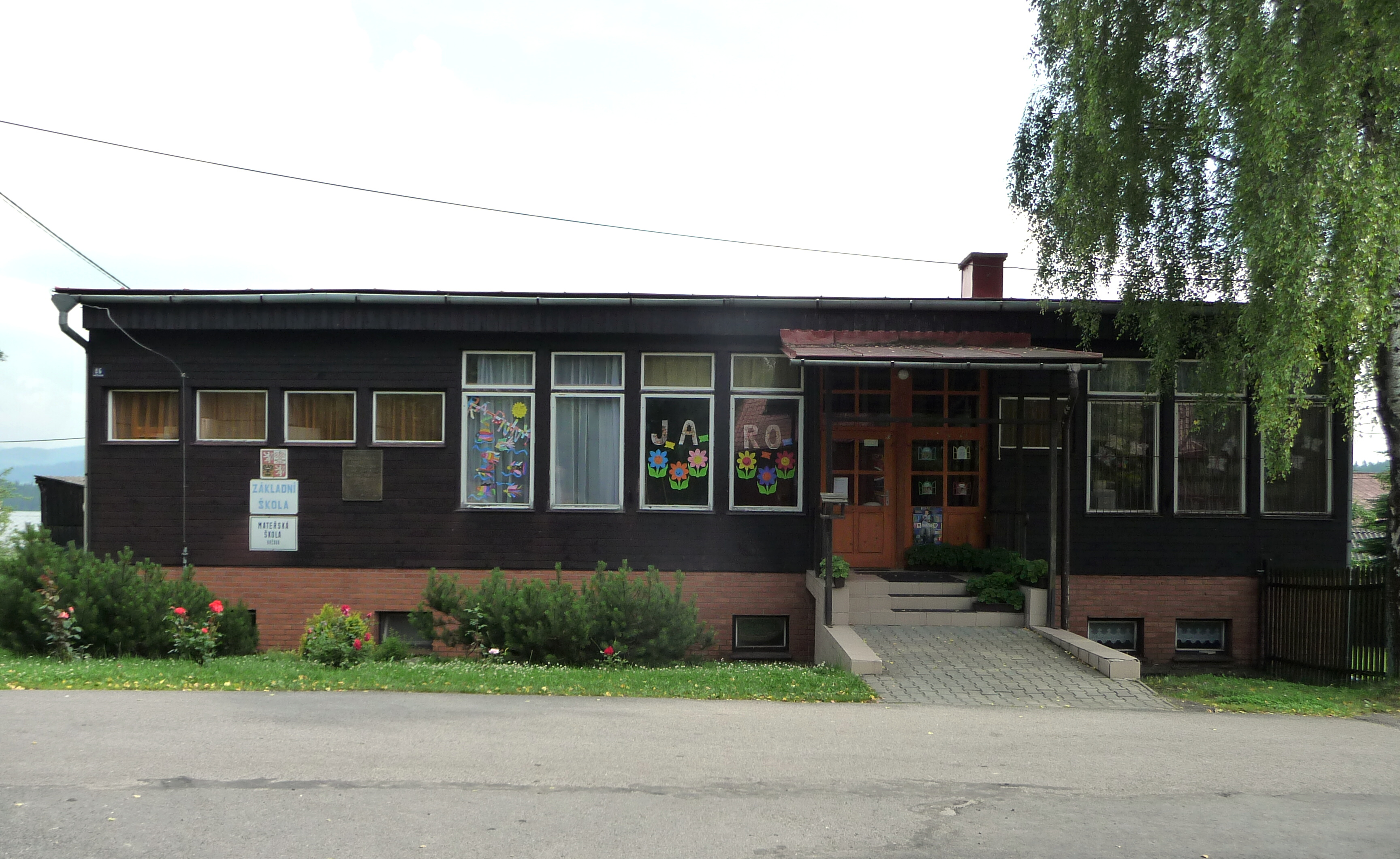 Primary school and kindergarten in Hrčava (Moravian-Silesian Region, Czech Republic).